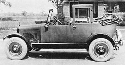 New for 1922 Elcar L4 taxicab bodied as town landaulet with folded top over passenger compartment